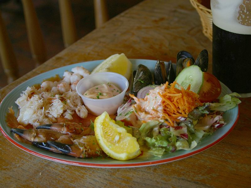 Seafood Plate - 2002-06-14 Then back to BallyVaughan for a seafood platter. Very yummy. Five hours in Ireland and I~~m hiking in the Burren, drinking Guinness, and eating mussels. Wonderfully wonderful